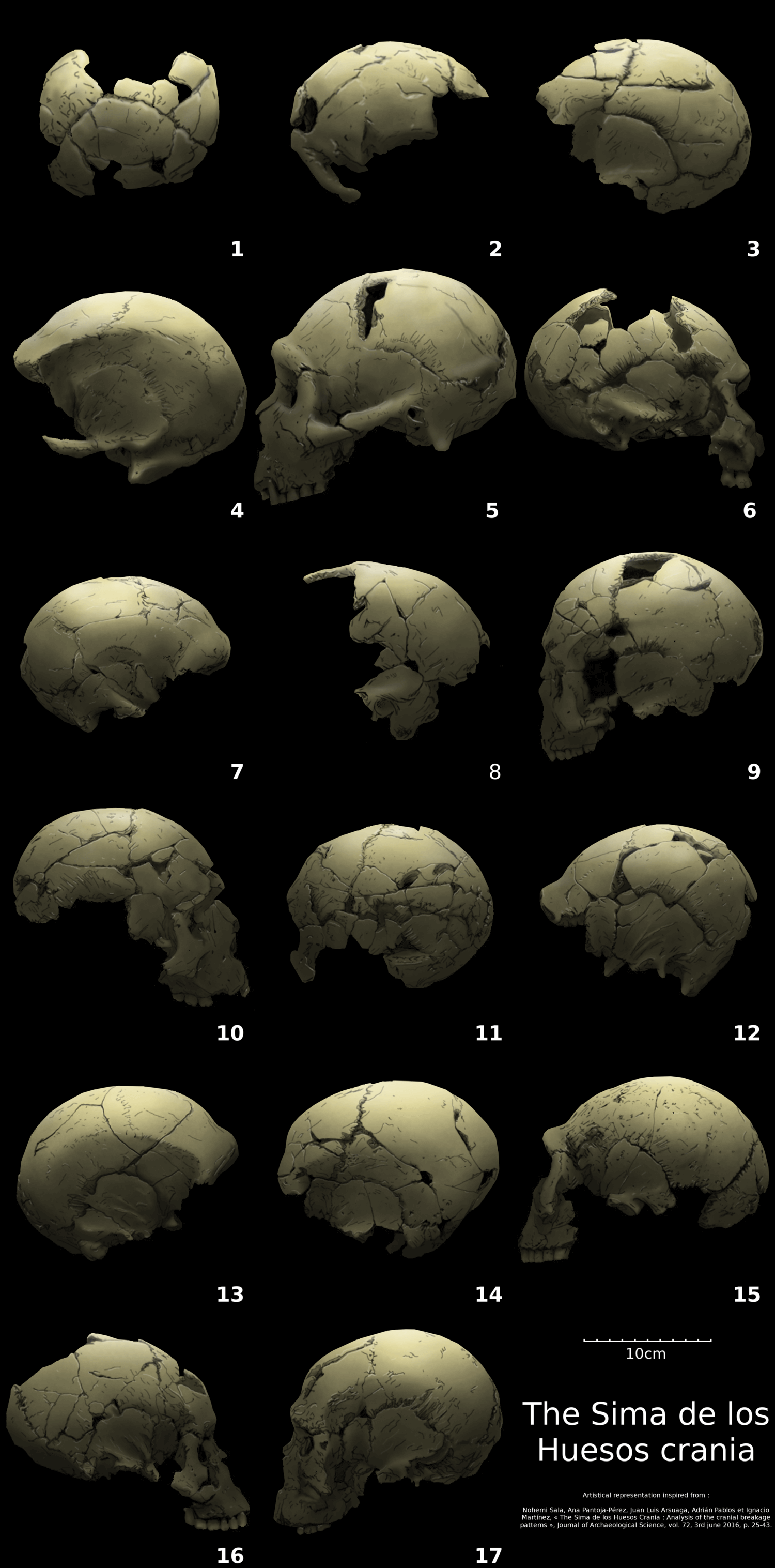 Artistical representation of the 17 crania of the Sima de los Huesos, inspired from a 2016 report from the Atapuerca investigation team.